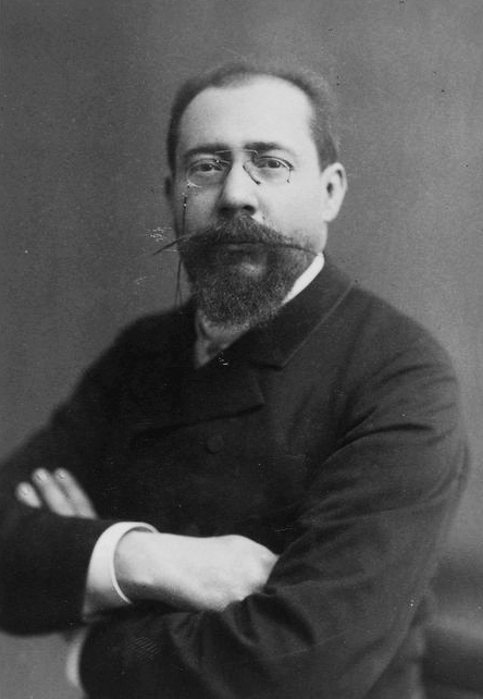 French politician Maurice Rouvier (1842-1911) photographed by Ernest Ladrey (1830-1889).